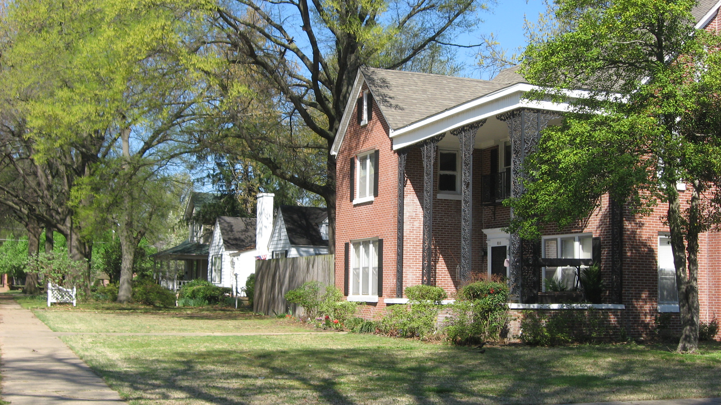 Houses on the northern side of the 800 block of W. Main Street (Highways 18 and 151) in Blytheville, Arkansas, United States. This block is part of the West Main Street Residential Historic District, a historic district that is listed on the National Register of Historic Places.